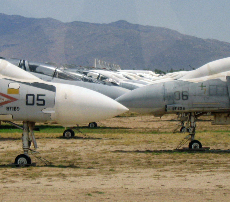 Fighters stored at AMARC. August 2005.